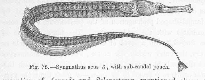 Syngnathus acus (male), with sub-caudal pouch Subject: Syngnathidae Tag: Fish